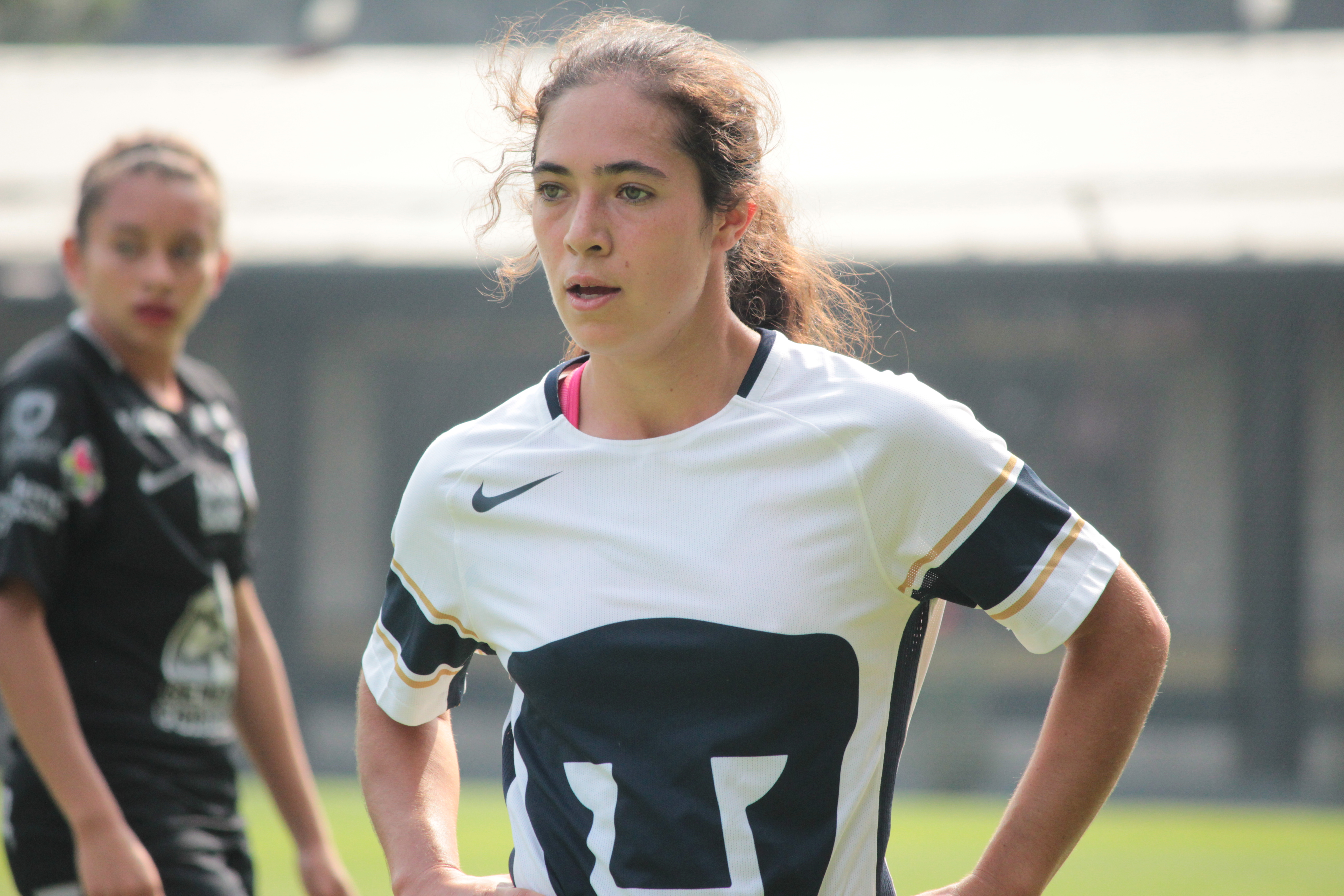 Paola López Yrigoyen in 2017 playing for Pumas UNAM